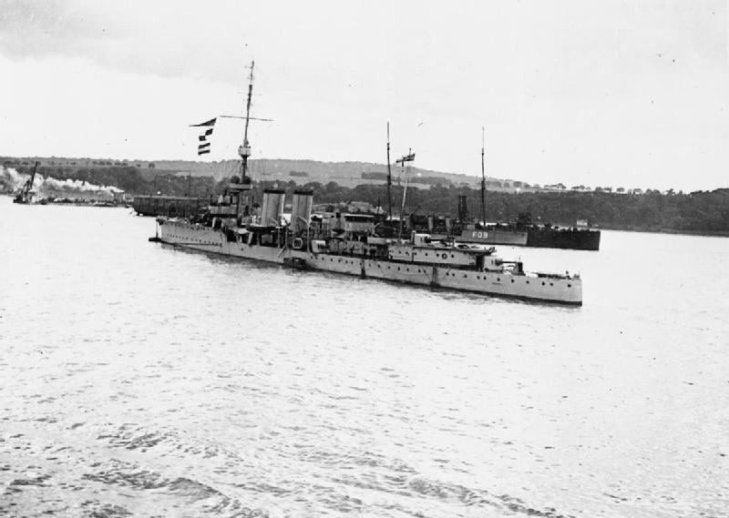 British light cruiser HMS CHAMPION.